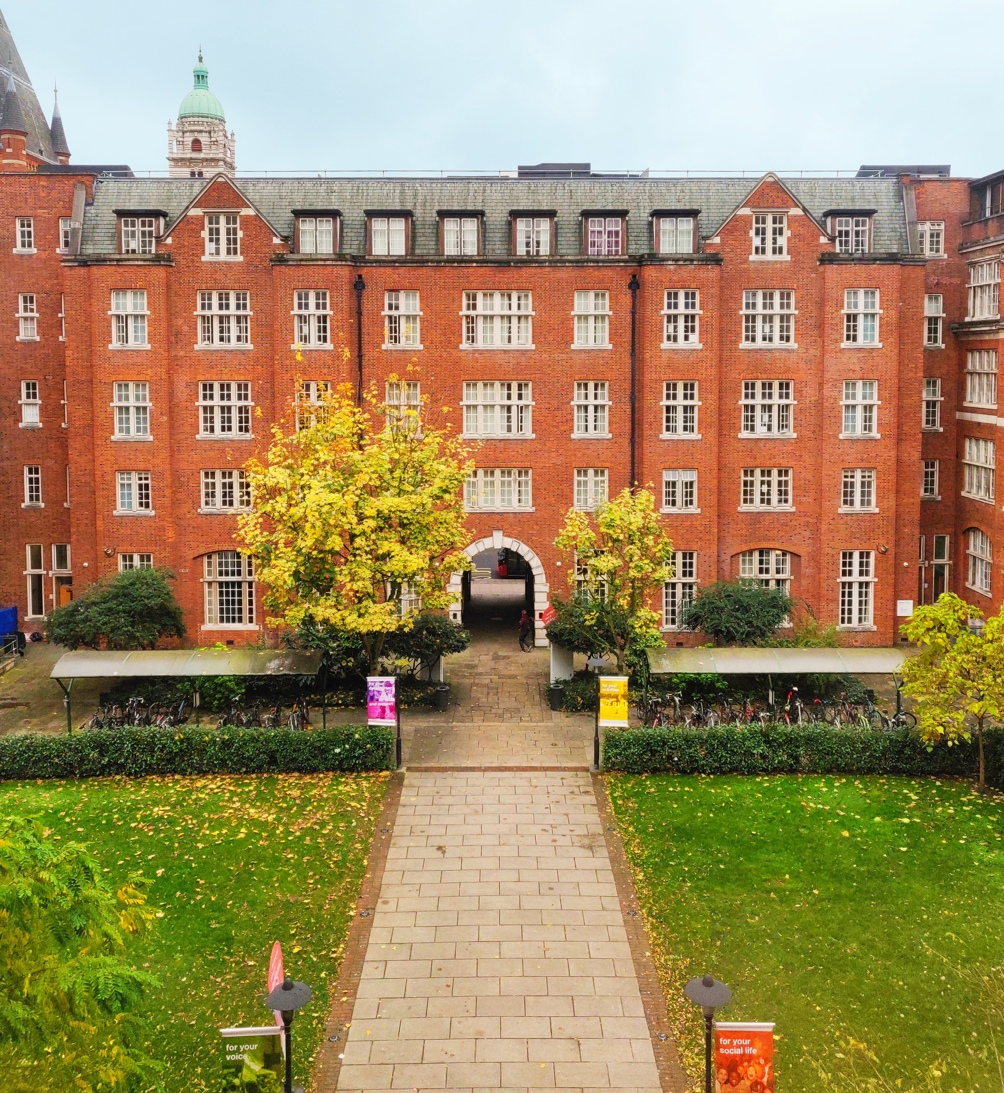 Beit Hall is an Imperial College hall of residence on Beit Quadrangle, a courtyard part of the South Kensington Campus